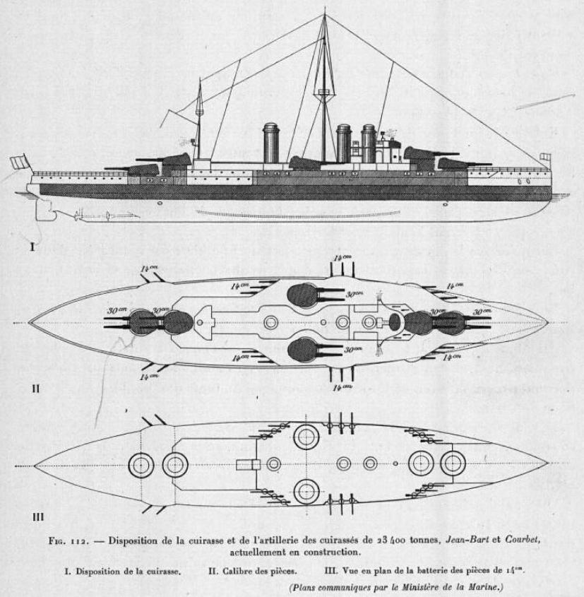 Armor and weapons planned for the French battleships Courbet and Jean-Bart planned for 1910 (not yet Ships built at that date). I : Thickness of the shield in millimeters. II : Caliber guns in centimeters and millimeters. III : Plan of the battery caliber guns 14 centimeters.